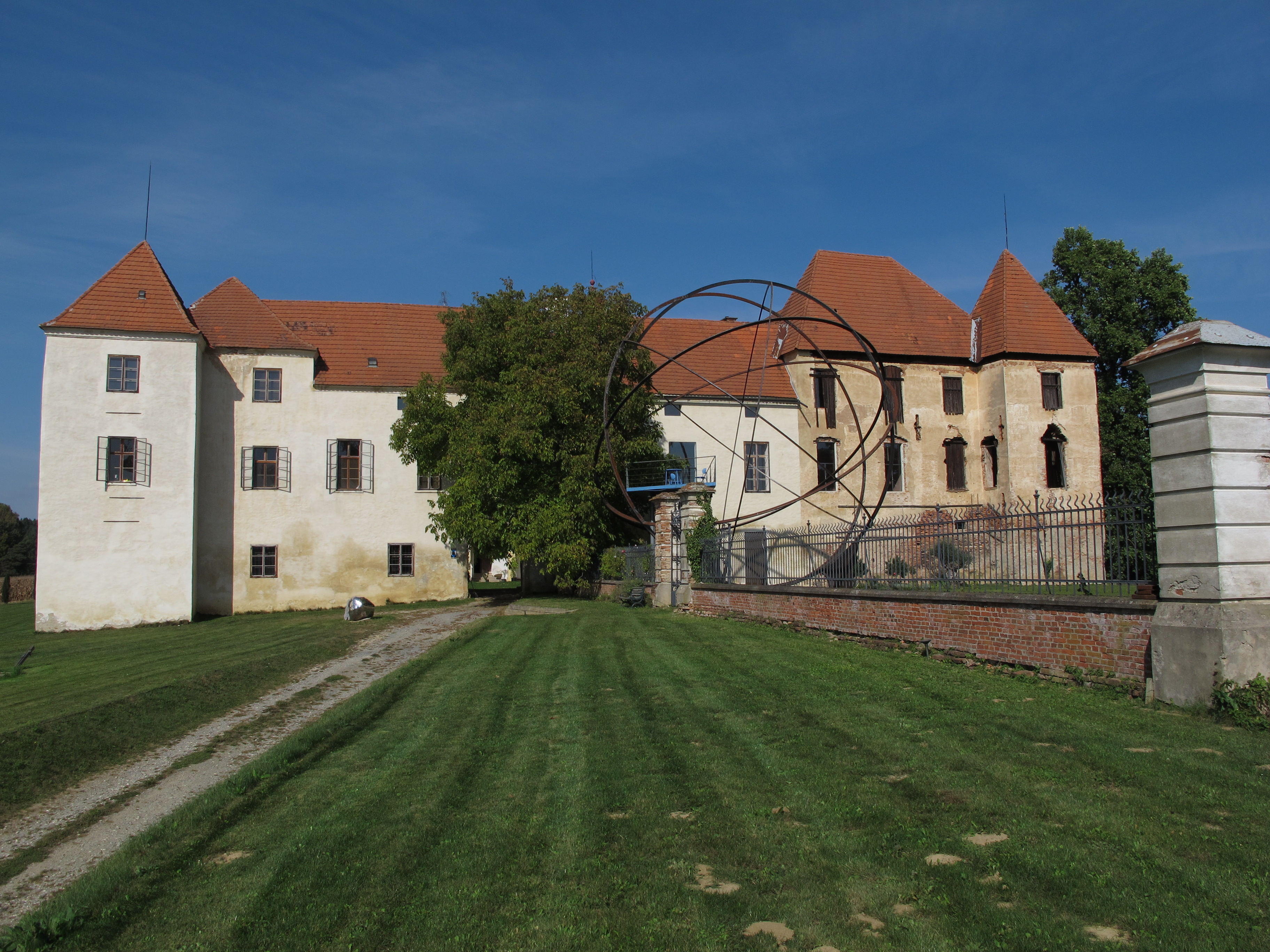 Schloß Kalsdorf